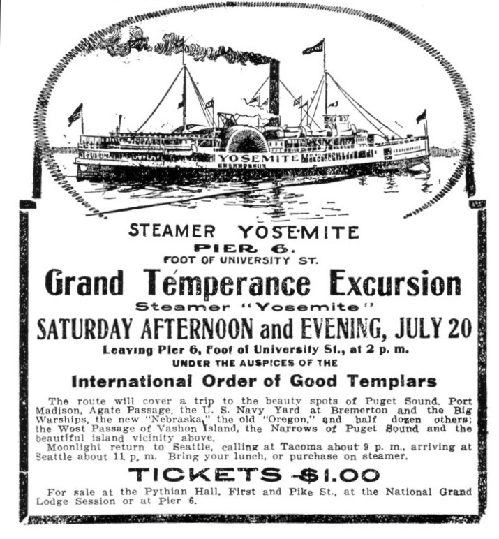 Advertisement for "Grand Temperance Excursion to occur on the sidewheeler Yosemite. (This ship grounded and was a total loss on July 9, 1909 and was not returned to service). Vessel is depicted with full extended upper deck, which dates this advertisement to 1907 or 1908.